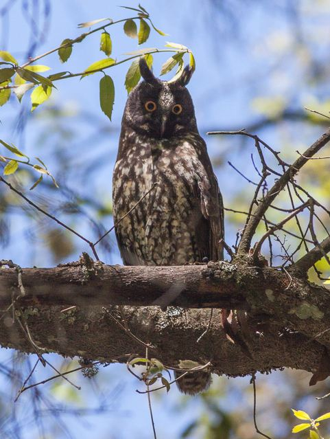 Stygian Owl (Asio stygius) at "Volcán de Colima" (also known as "Volcán de Fuego". Not to confuse with the "Volcán de Fuego" in Guatemala)